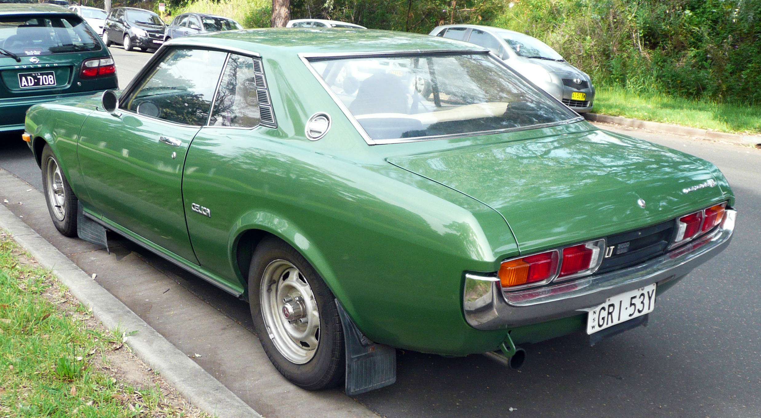 1976–1977 Toyota Celica (RA23) LT hardtop. Photographed in Sutherland, New South Wales, Australia.